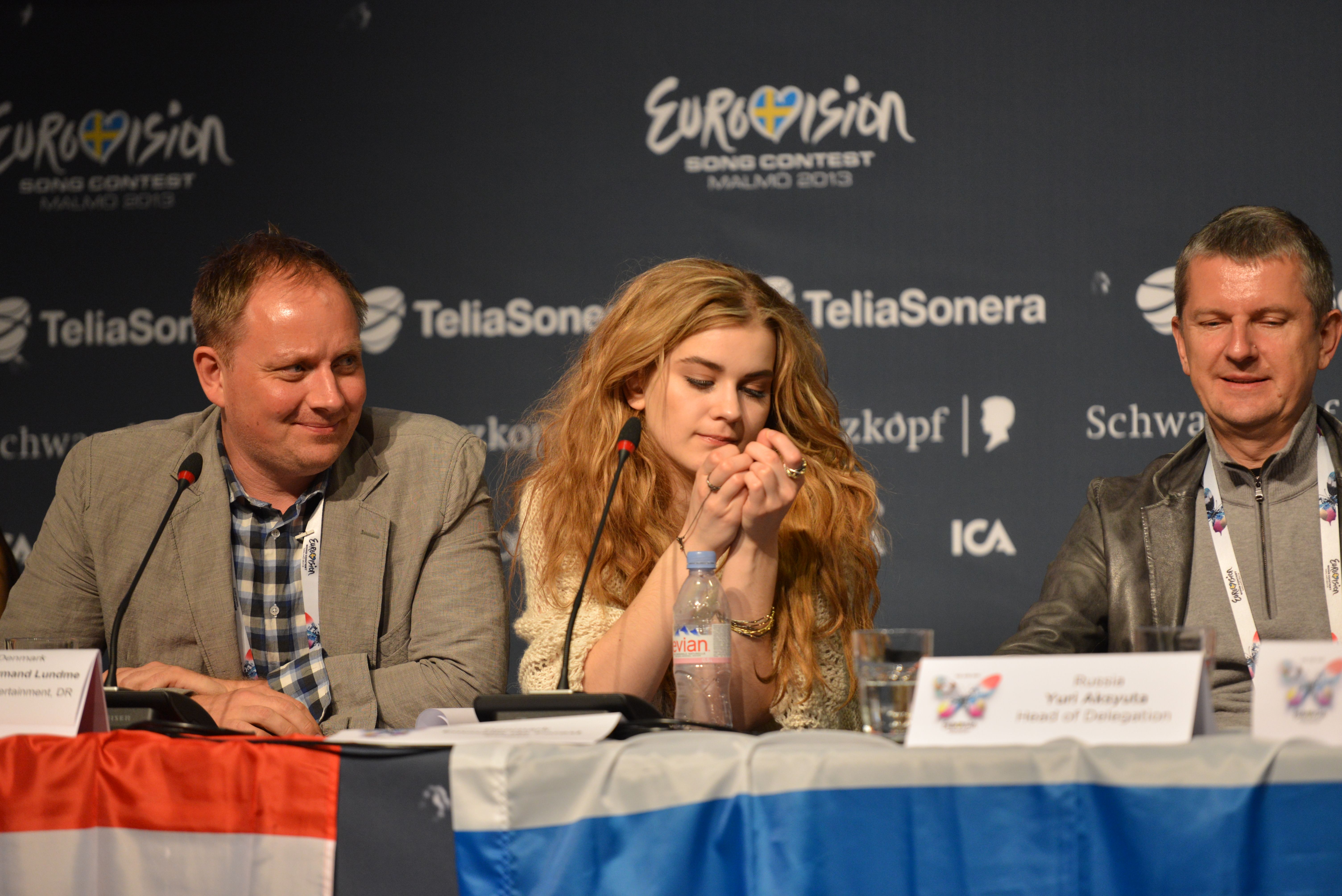 Emmelie de Forest at a press conference during the Eurovision Song Contest 2013 in Malmö. (Help translate this text)